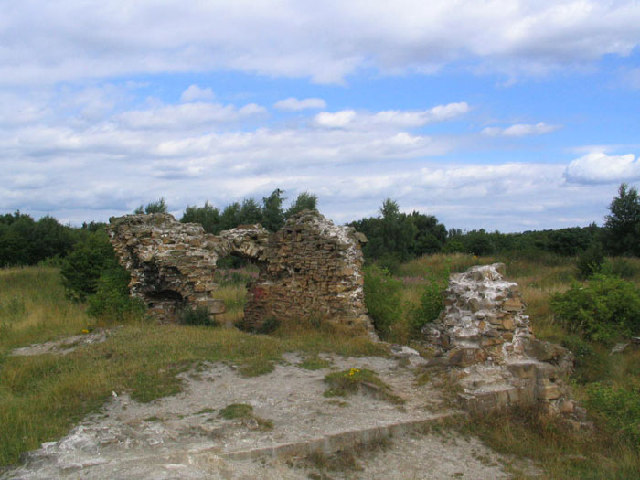 Howley Hall. The hall now a ruin, was for several generations the seat of an illegitimate branch of the Savilles. If was built upon a fine commanding situation, by Sir John Savile, afterwards Baron Savile, of Pontefract, and finished in 1590